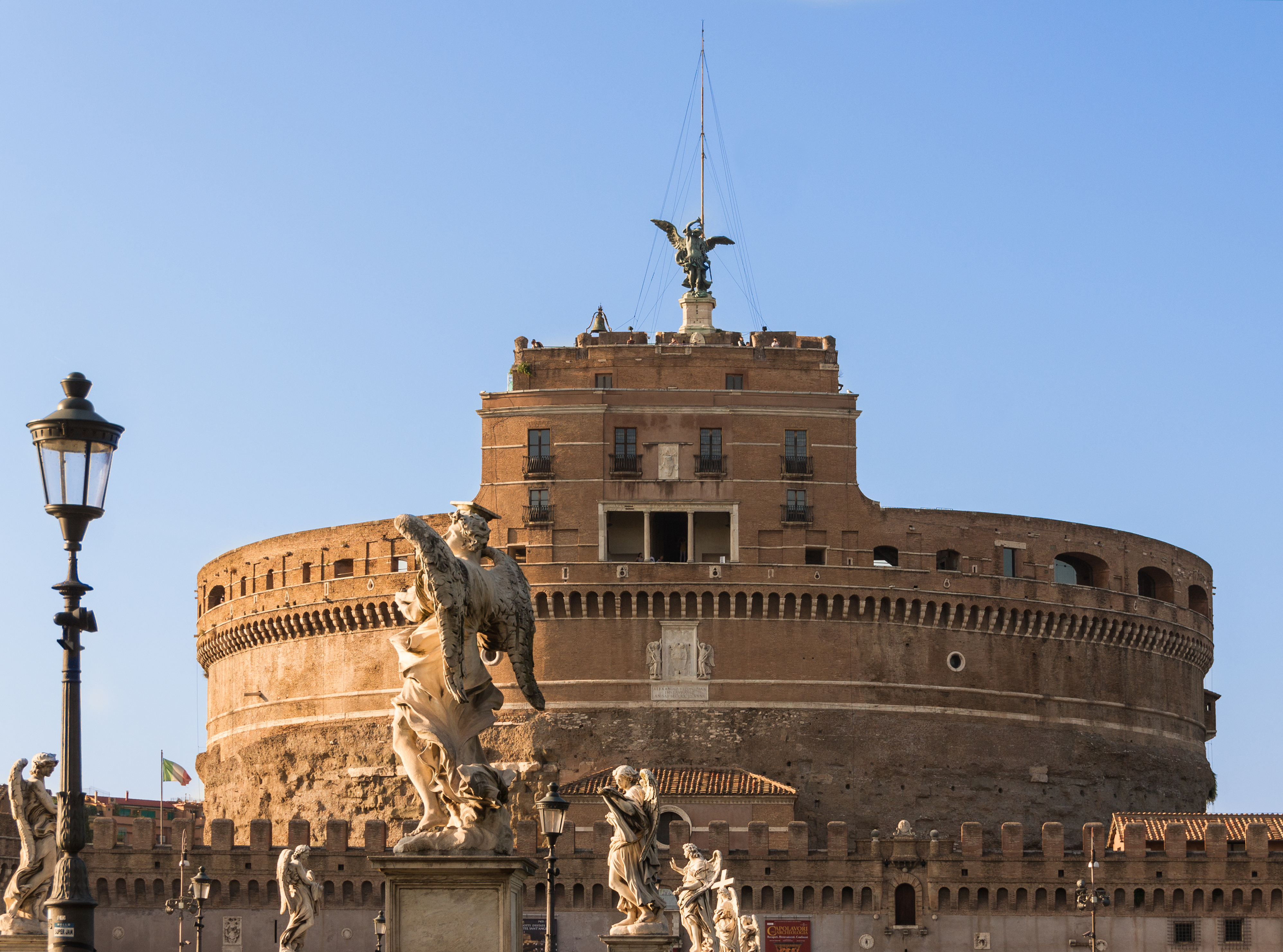 The Sant'Angelo castle, as seen from the opposite side of the Tiber river, Rome, Italy.